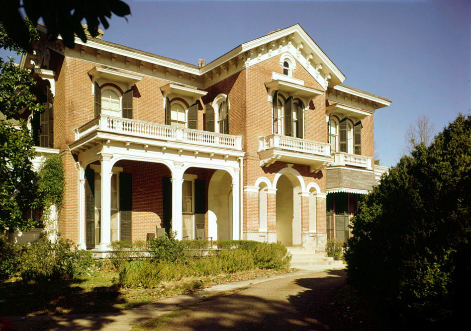 Ammadelle, 637 North Lamar Boulevard, Oxford (Lafayette County, Mississippi) (cropped)